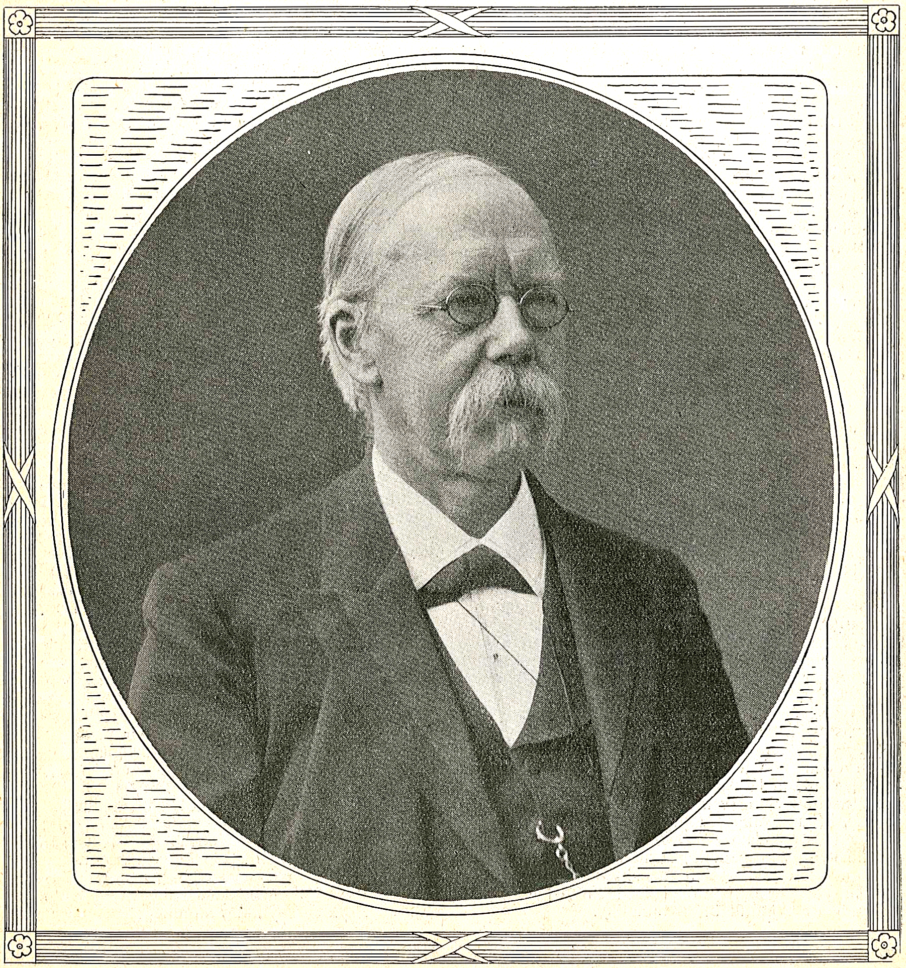 Johan August Lundell (1851-1940), Swedish linguist and professor of Slavic languages at Uppsala University.